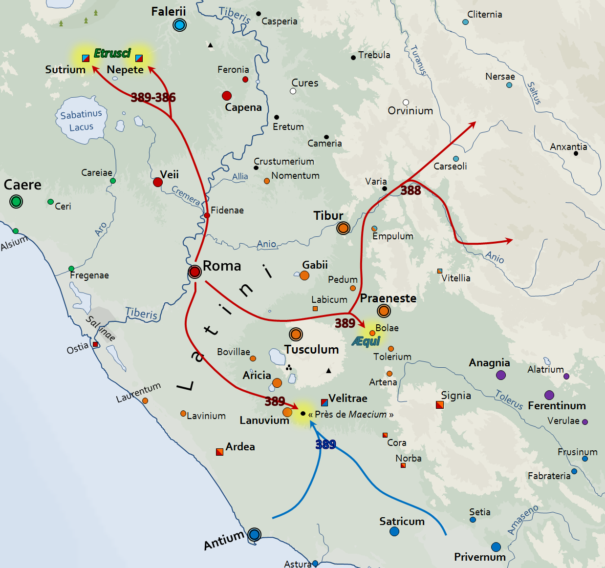 See File:Carte GuerresRomanoVolsques 389avJC.png for the broad map.